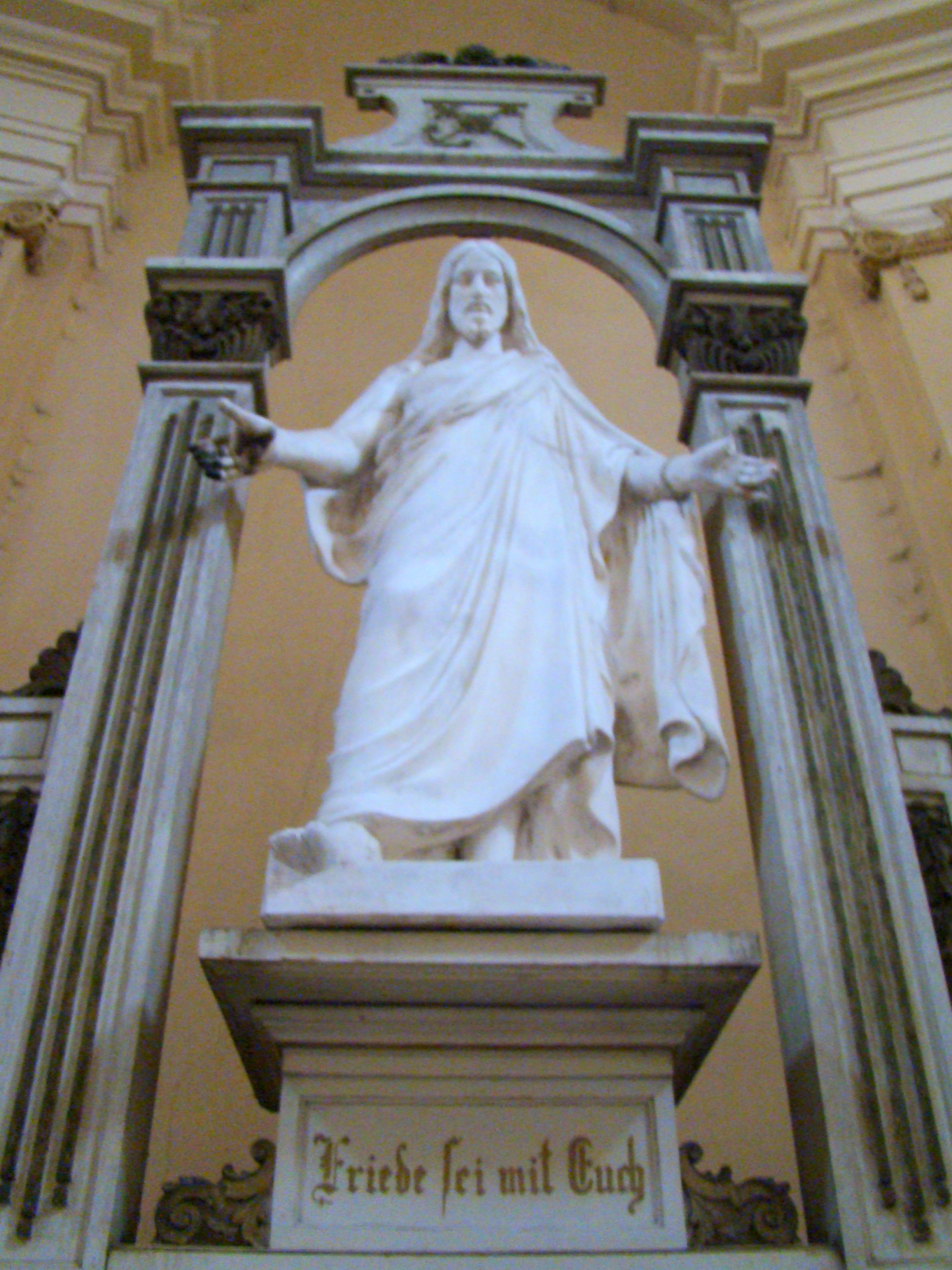 Lutheran church in Șaeș, Mureș county, Romania